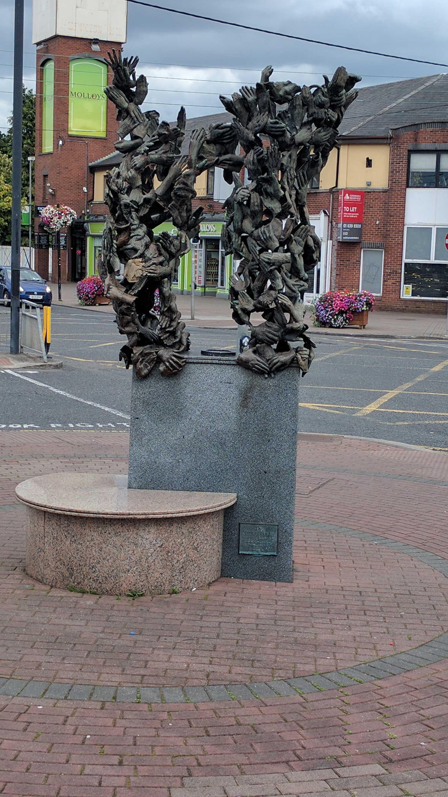 Spirit of Finglas, Dublin. Hands sculpture, 1991.